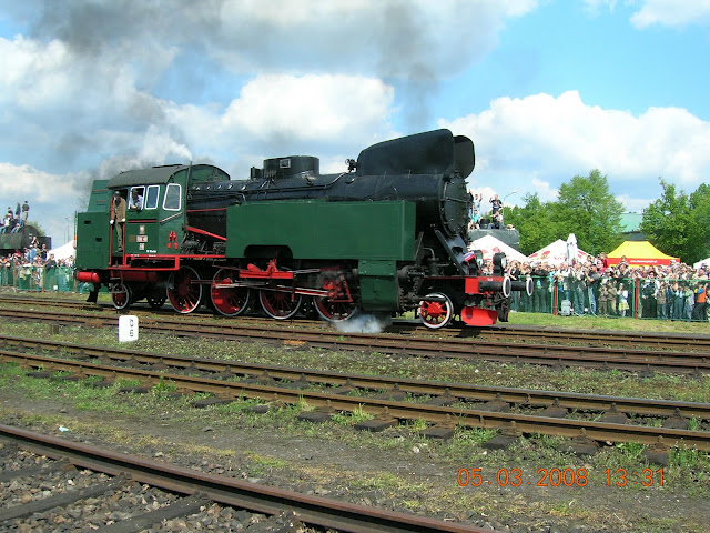 Wolsztyn train station